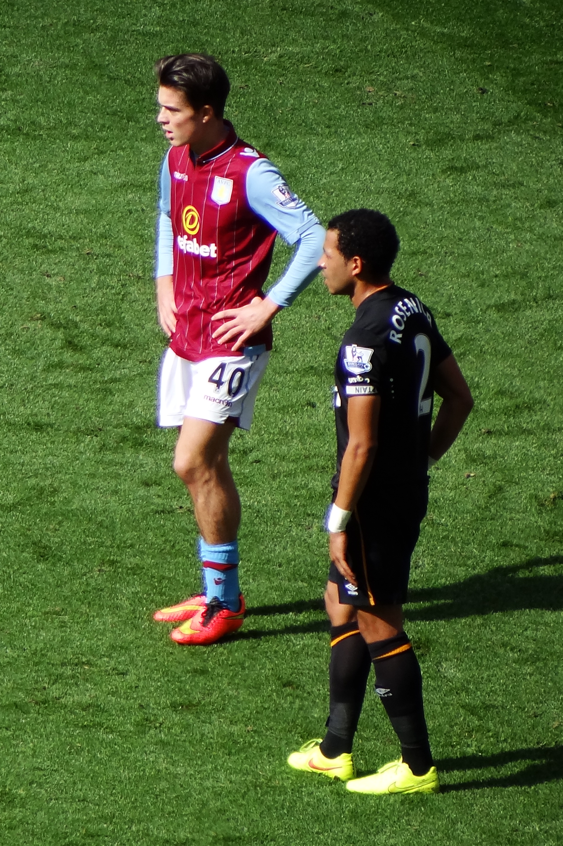 Aston Villa's Jack Grealish and Hull City's Liam Rosenior